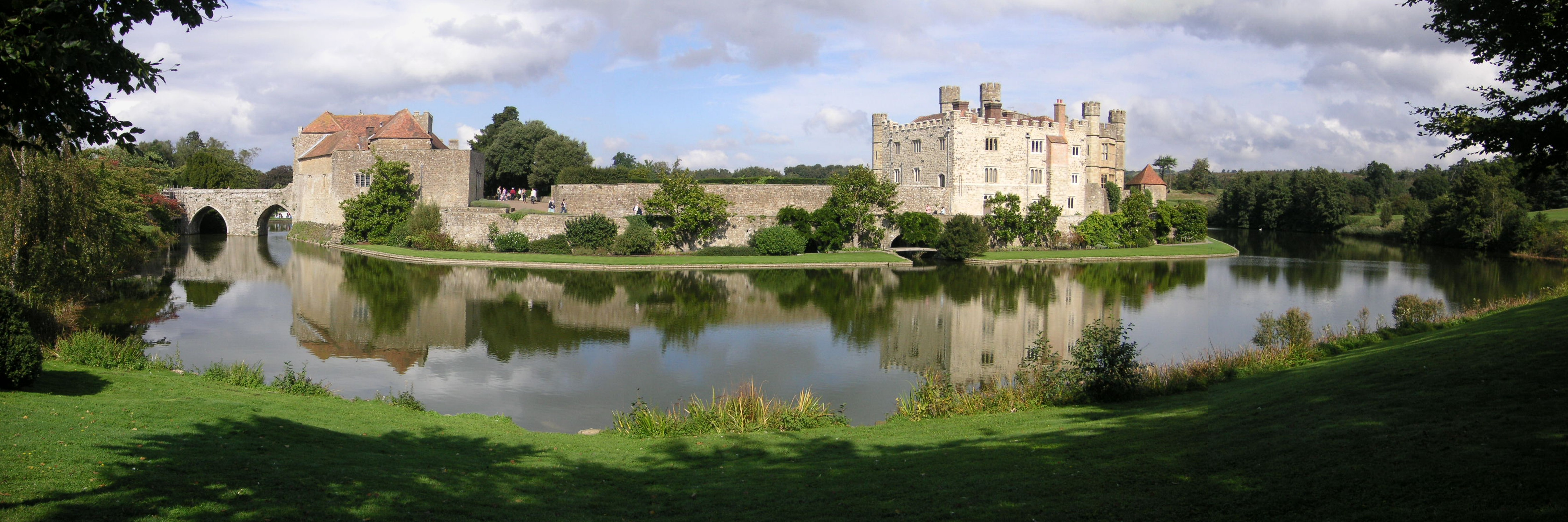 Leeds Castle, Kent, England. montage of three photos